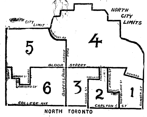 Map of the provincial riding of North Toronto, first used in the Ontario election of 1894.